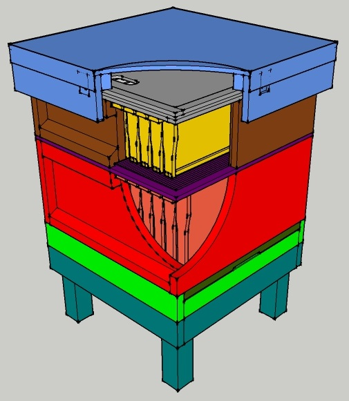 Cutaway CGI image of BS National Beehive, colour coded to differentiate parts.